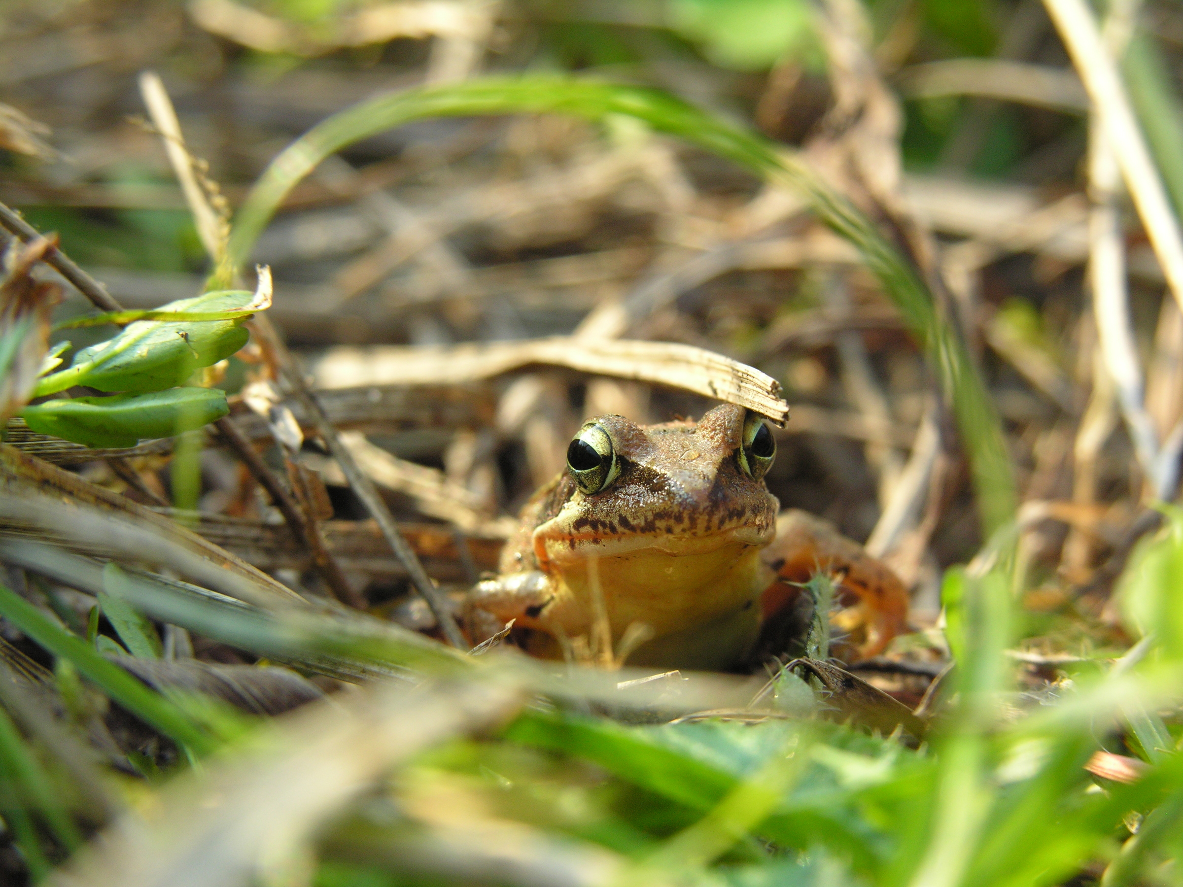 Rana japonica, Japanese brown frog